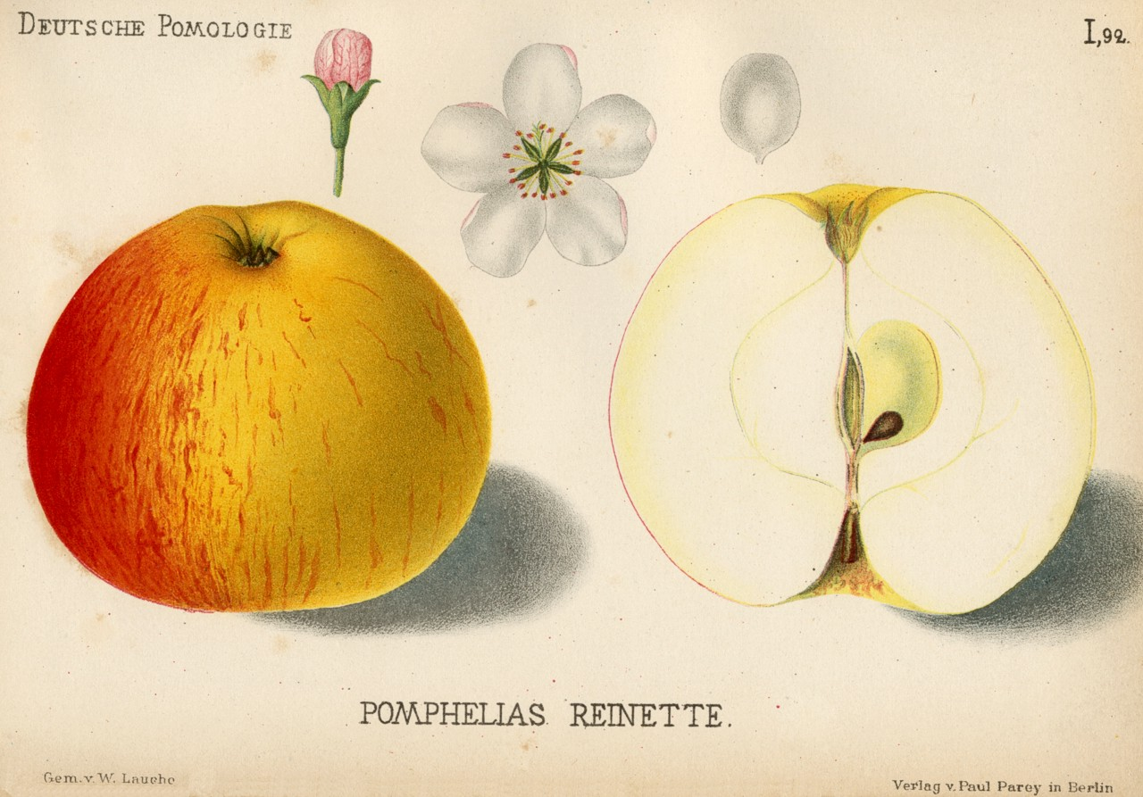 Illustration 92 from Deutsche Pomologie - Aepfel Apple cultivar shown: Pomphelias Reinette